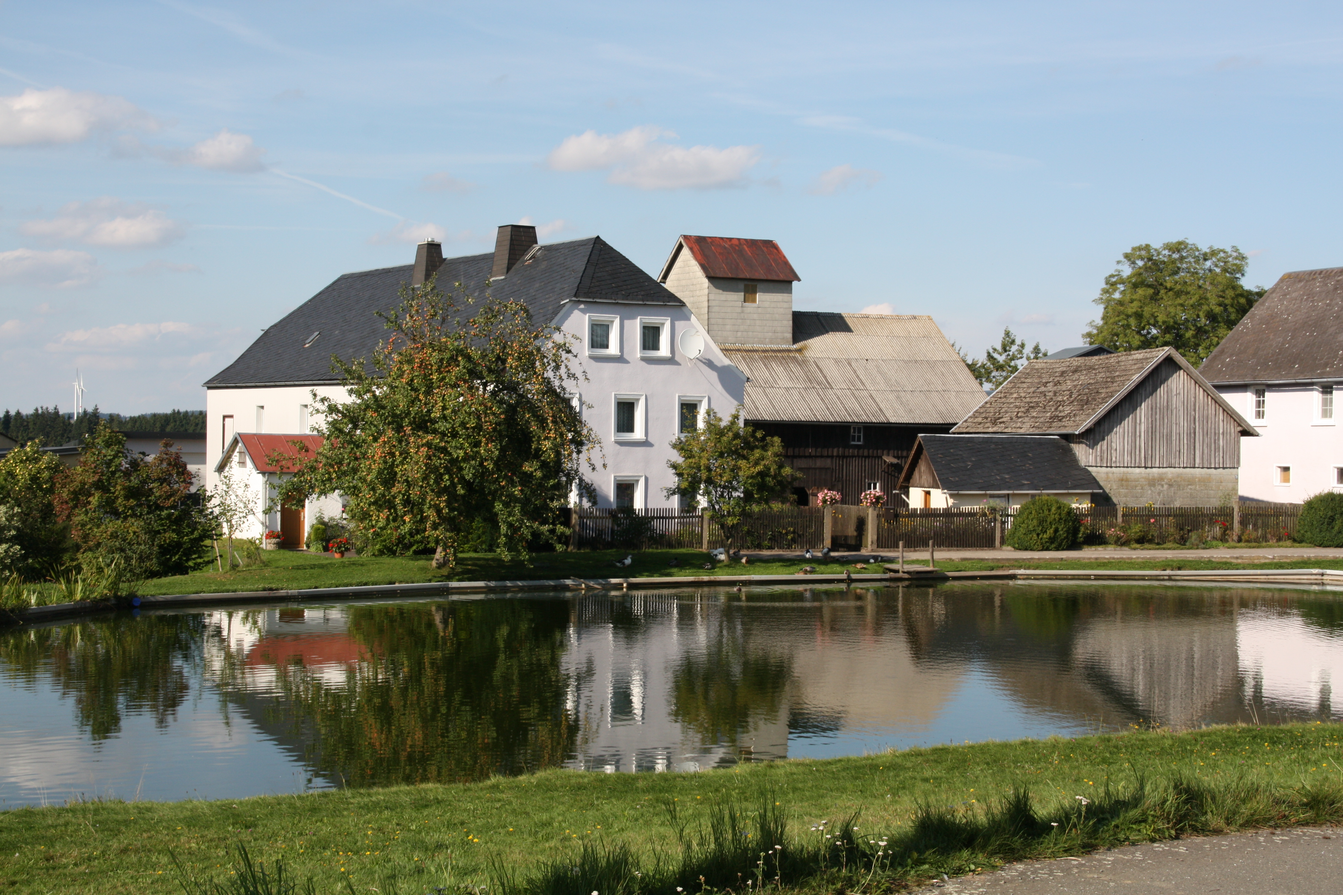 Village pond in Schweinsbach